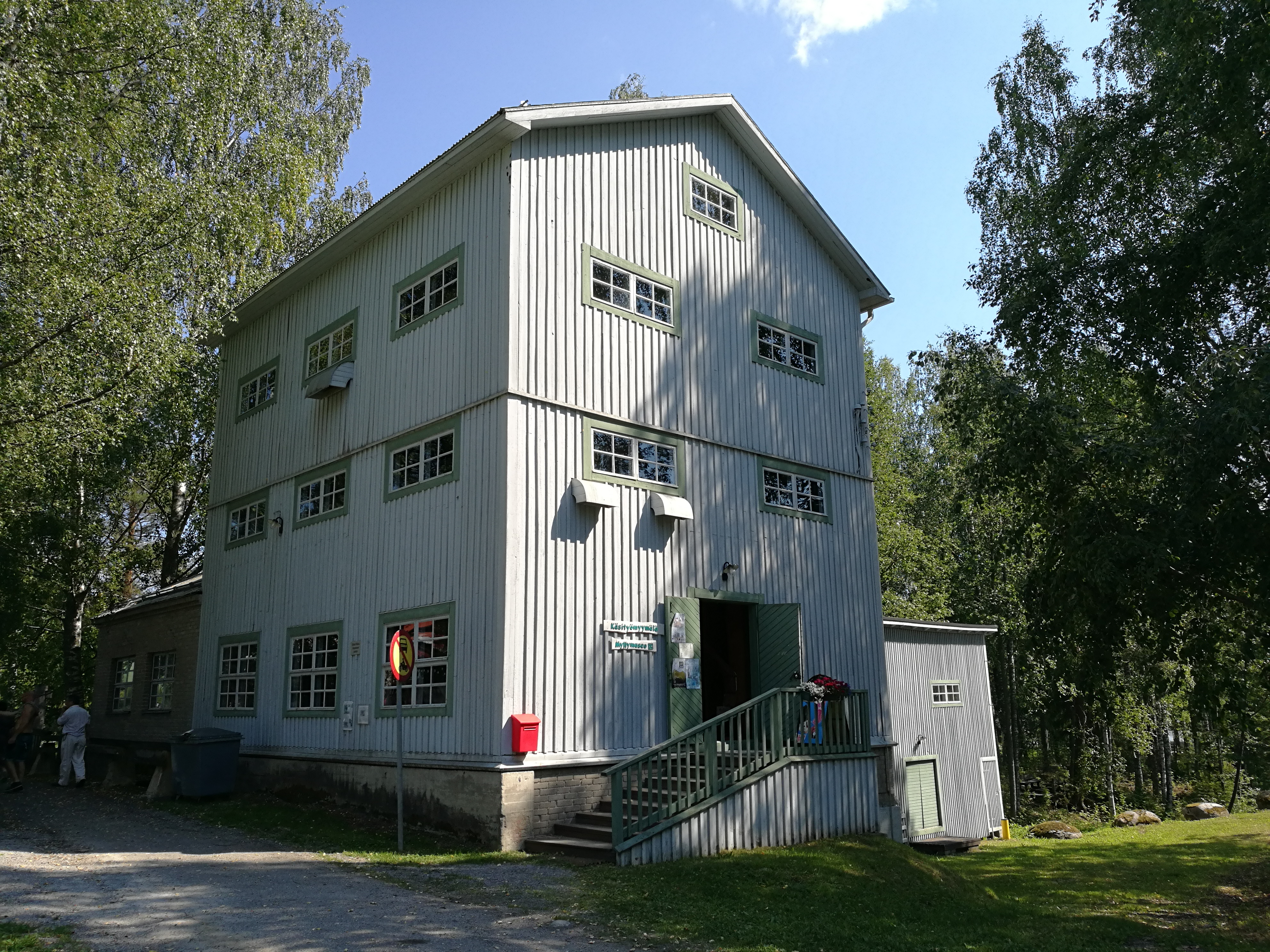 The mill museum and handicraft shop in Vuokala rapids park at Savonranta.